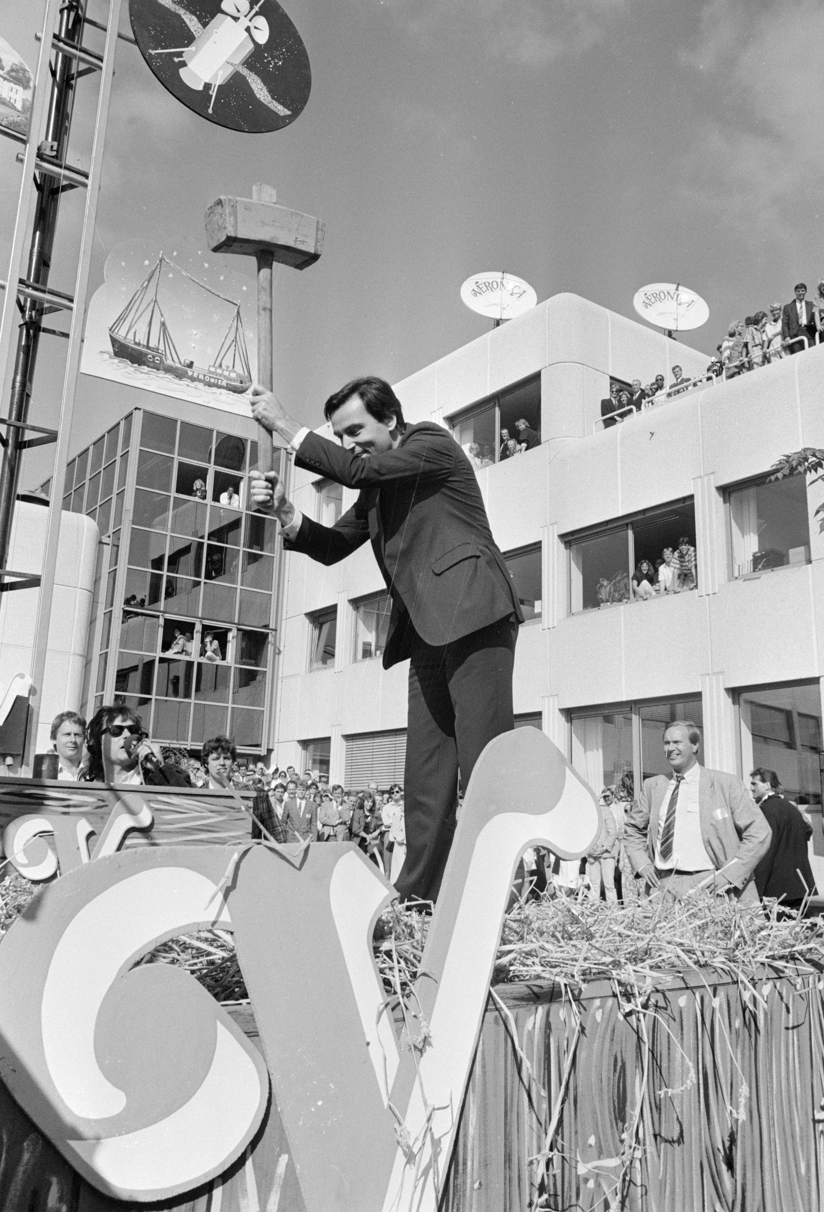 Nationaal Archief Beschrijving: Minister Brinkman opent nieuwbouw Veronica in Hilversum; minister Brinkman slaat op "kop van jut" Datum: 31 augustus 1987 Bestanddeelnummer NL-HaNA_Anefo_934-0640 Vervaardiger: Croes, Rob / Anefo URL: Voor meer informatie over het Nationaal Archief: Voor meer foto's uit deze en andere collecties, bezoek onze Beeldbank:, U kunt ons helpen onze kennis van de fotocollecties te verrijken door tags en commentaren toe te voegen. Herkent u mensen of locaties of heeft u een bijzonder verhaal te vertellen bij één van de foto's, laat dan een reactie achter (als u ingelogd bent bij Flickr) of stuur een mailtje naar